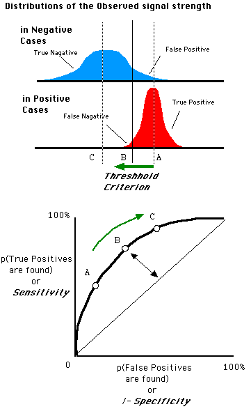 Description : An illustration for the explanation of Receiver operating characteristic (ROC) Author : I, uploader, myself